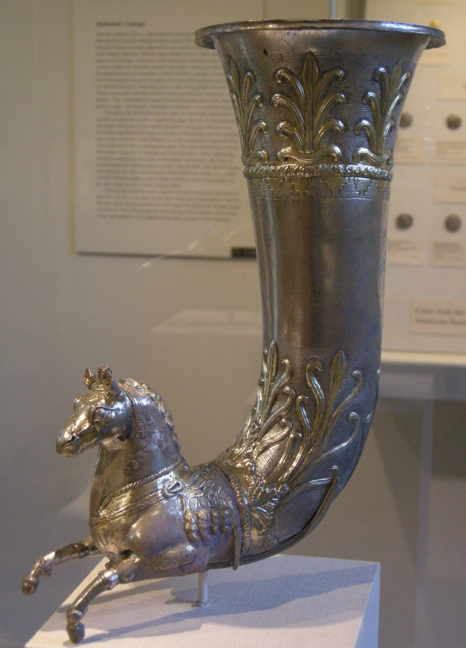 Met, greek-parthian, hellenistic, silver-gilt rhyton, 2nd BC